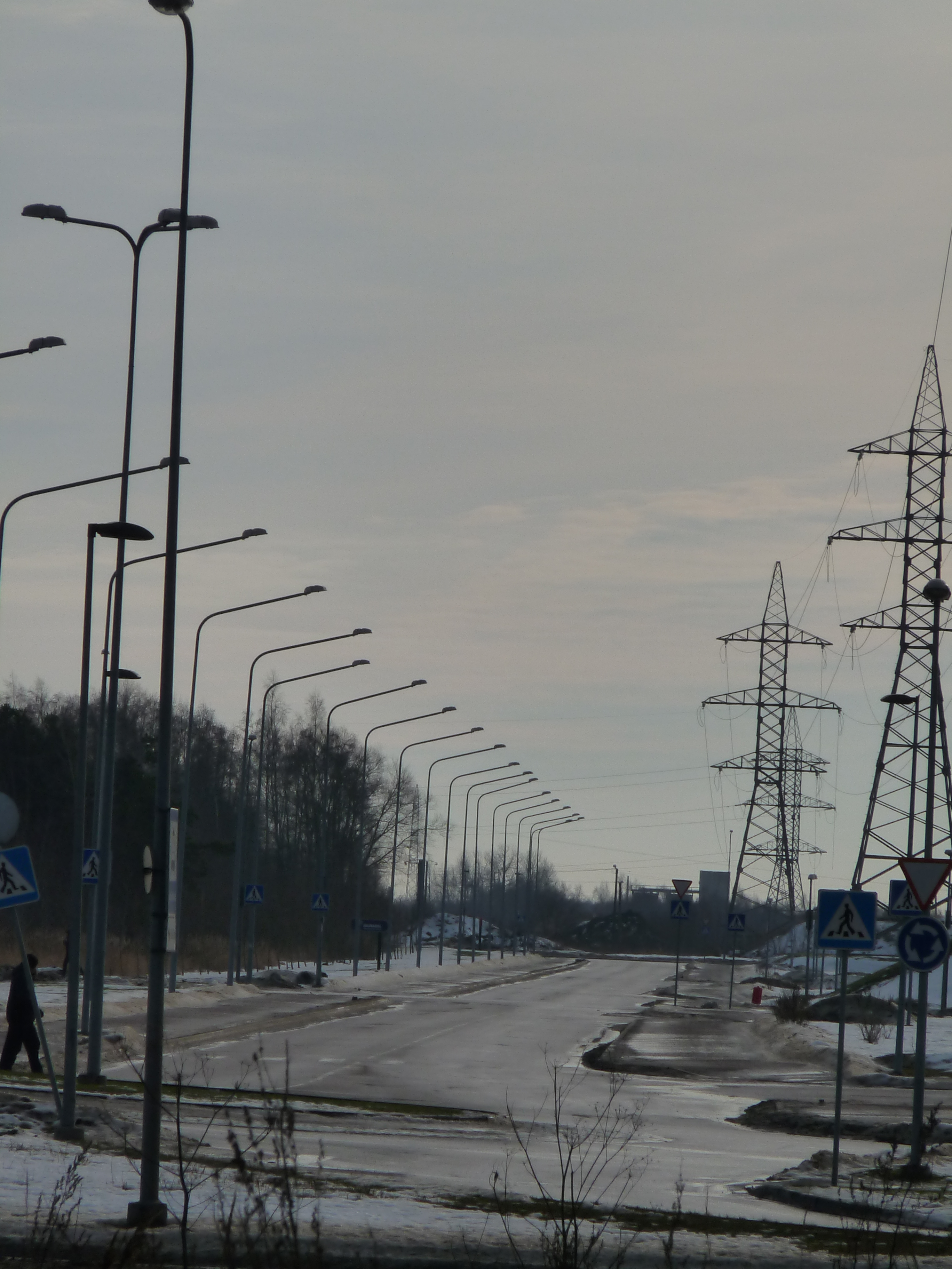 Taevakivi street in Tallinn, Estonia